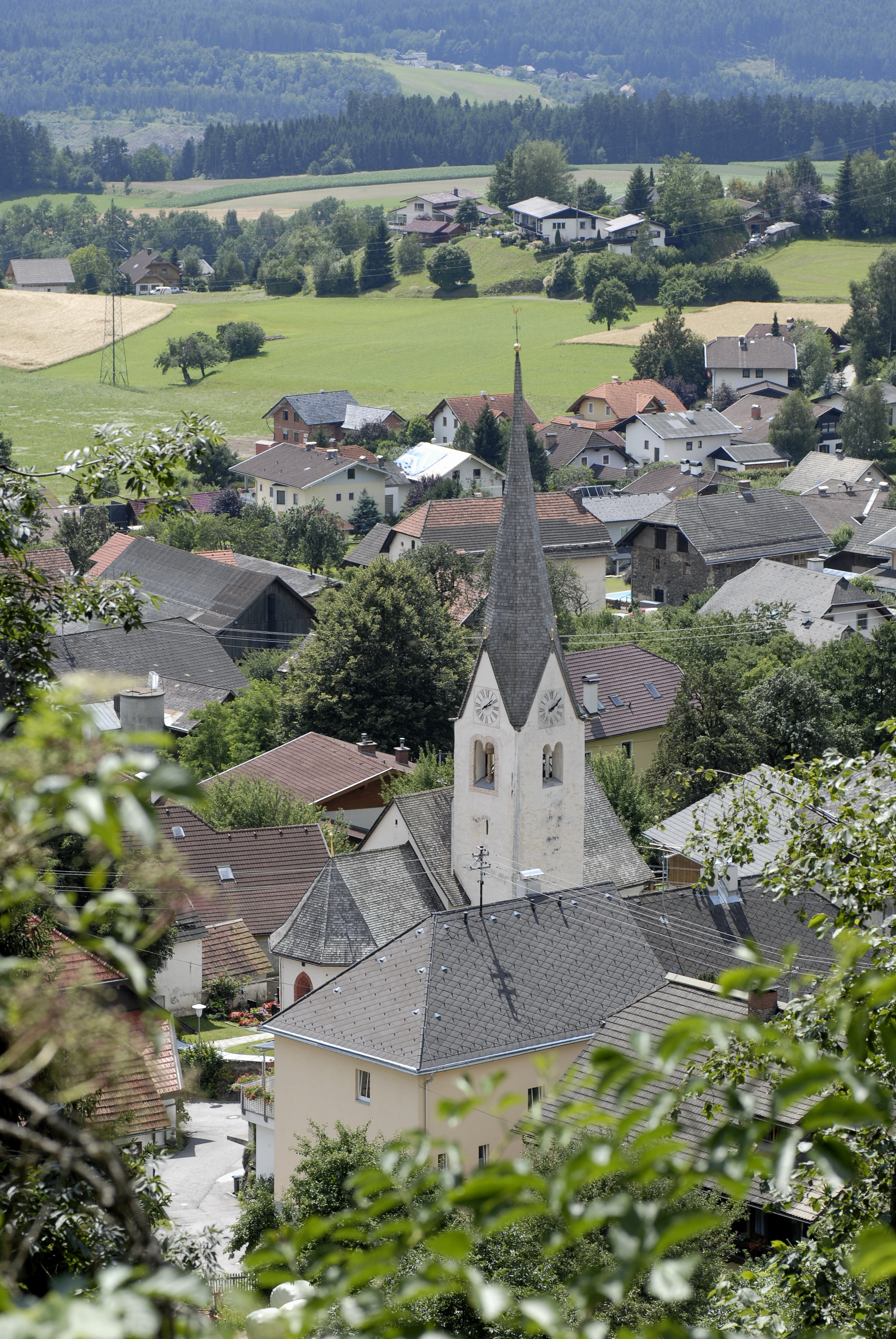 Treffling with church seen from Northeast